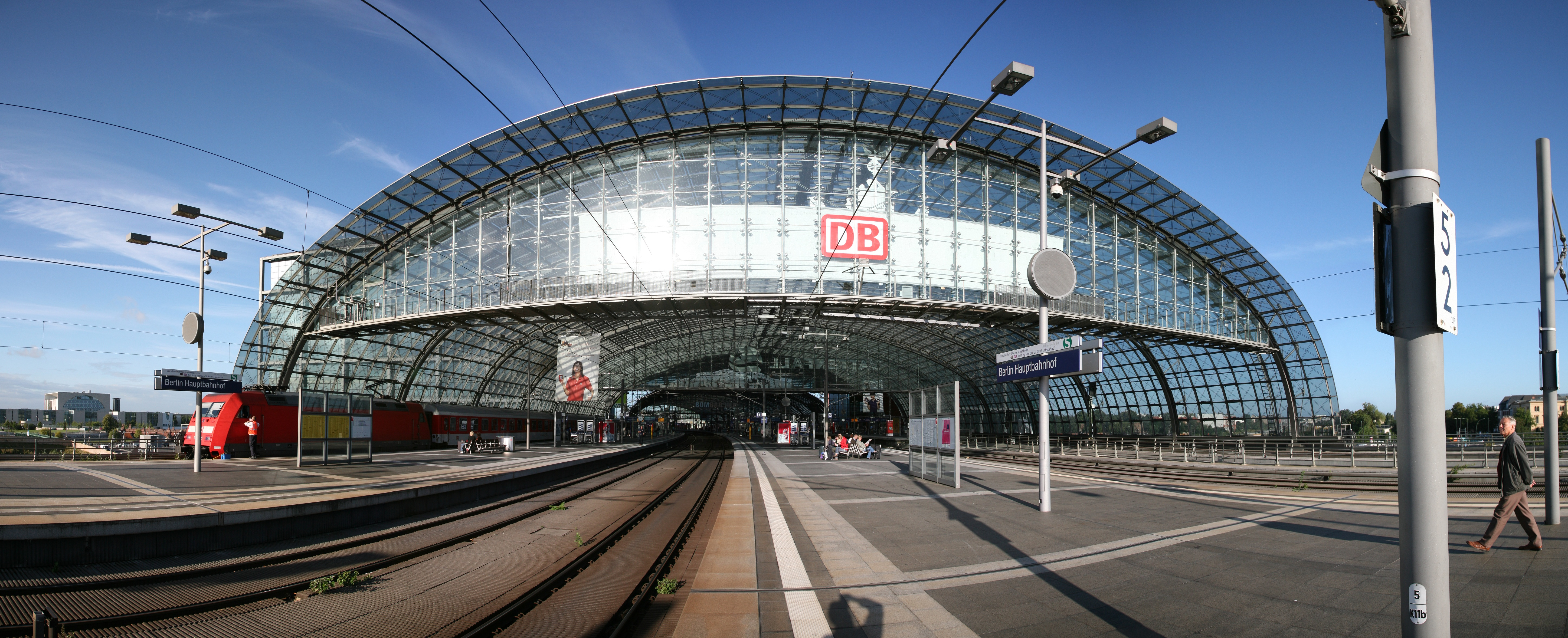 Berlin Centra Station, upper level